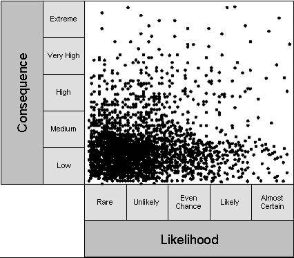 Risk Matrix showing a pareto distribution of risk - many lower likelihood/lower consequence and few higher likelihood/consequence